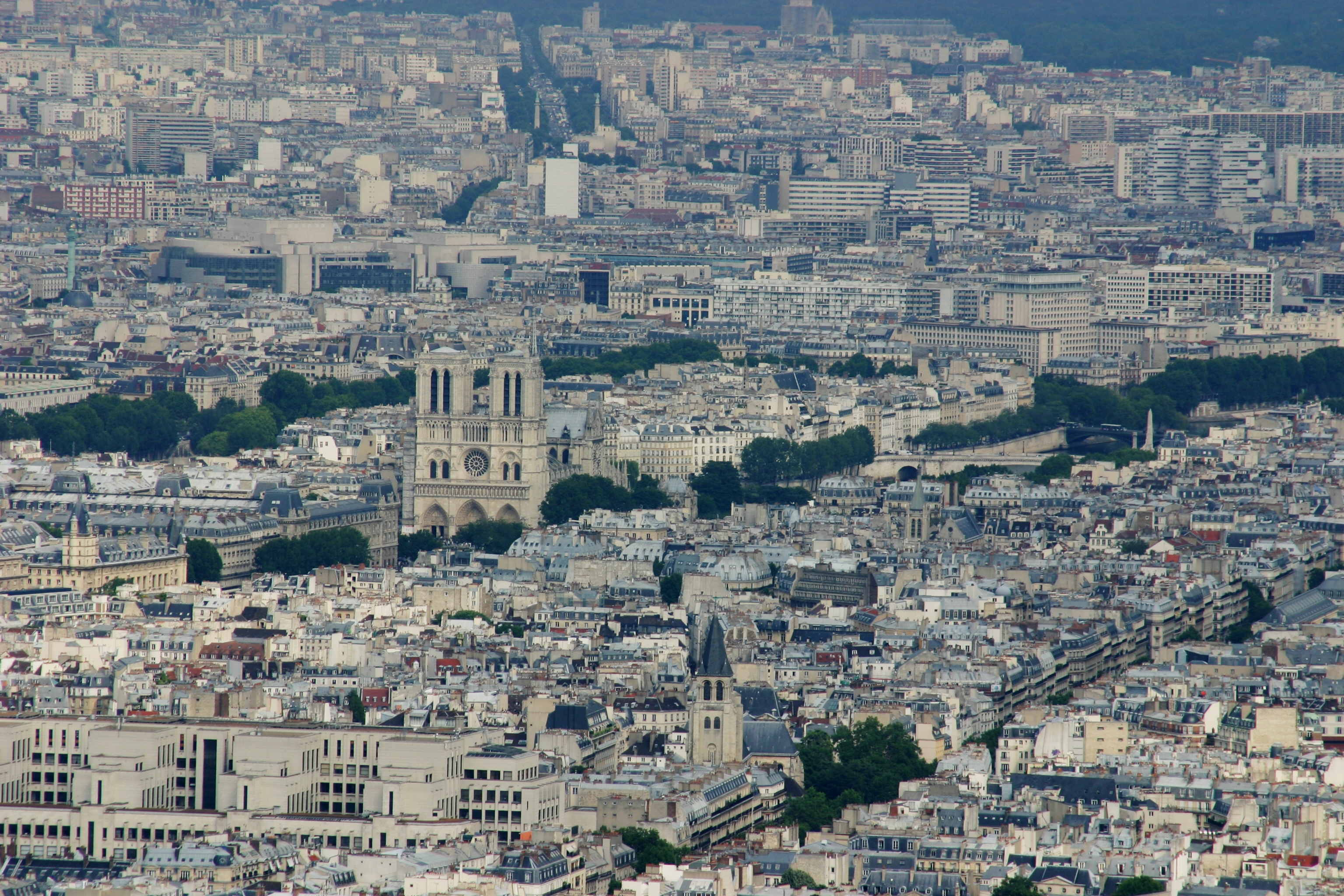 Notre Dame cathedral, Paris.